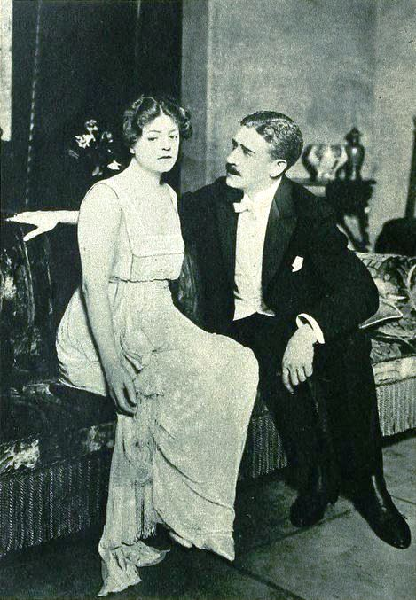 Ethel Barrymore and Claude King in the Zoe Atkins production Declassee at the Empire Theater in New York, on page 28 of the February 1920 Shadowland.